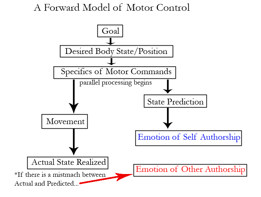 A forward model of motor control. Notice that a prediction of the future state is made just before the movement occurs. Presumably that efference copy is used to establish agency.